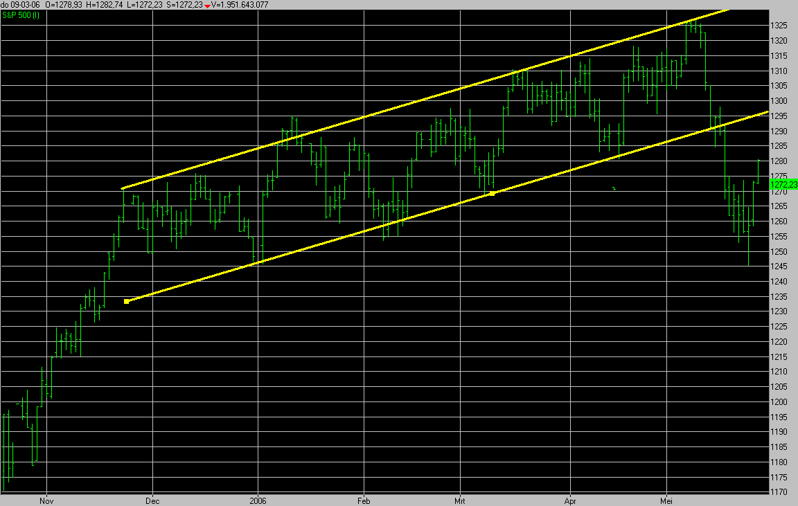 Channel in a time series of the S&P 500 index.